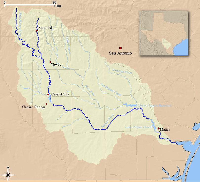 This is a map of the Nueces River watershed. I, Kuru, created from data originating at the USGS.